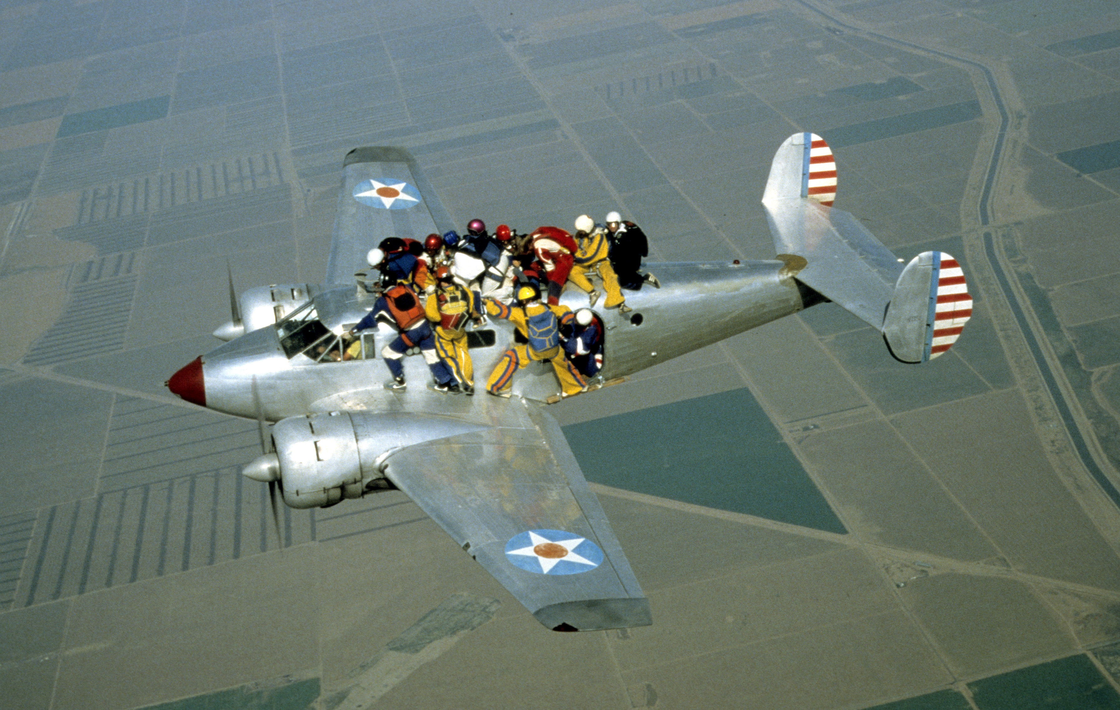 12-man-hang load, organized, produced and photographed by Klaus Heller over Taft/California in 1980